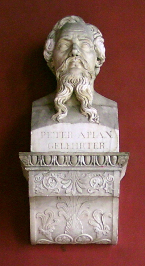 Bust of Peter Apian at Ruhmeshalle ("Hall of fame"), München, Germany. Picture taken by myself: Dominik Hundhammer, München, 27 March 2006.